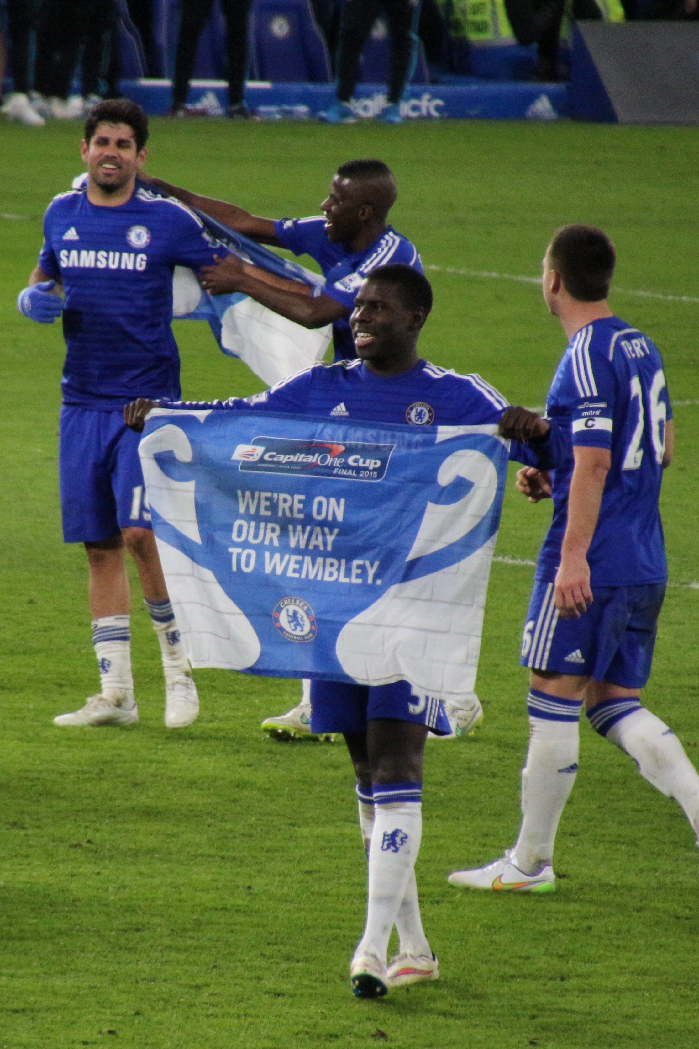 Chelsea 1 lLiverpool 0 (2-1 agg) Capital One Cup semi final 2nd leg On our way to Wembley!